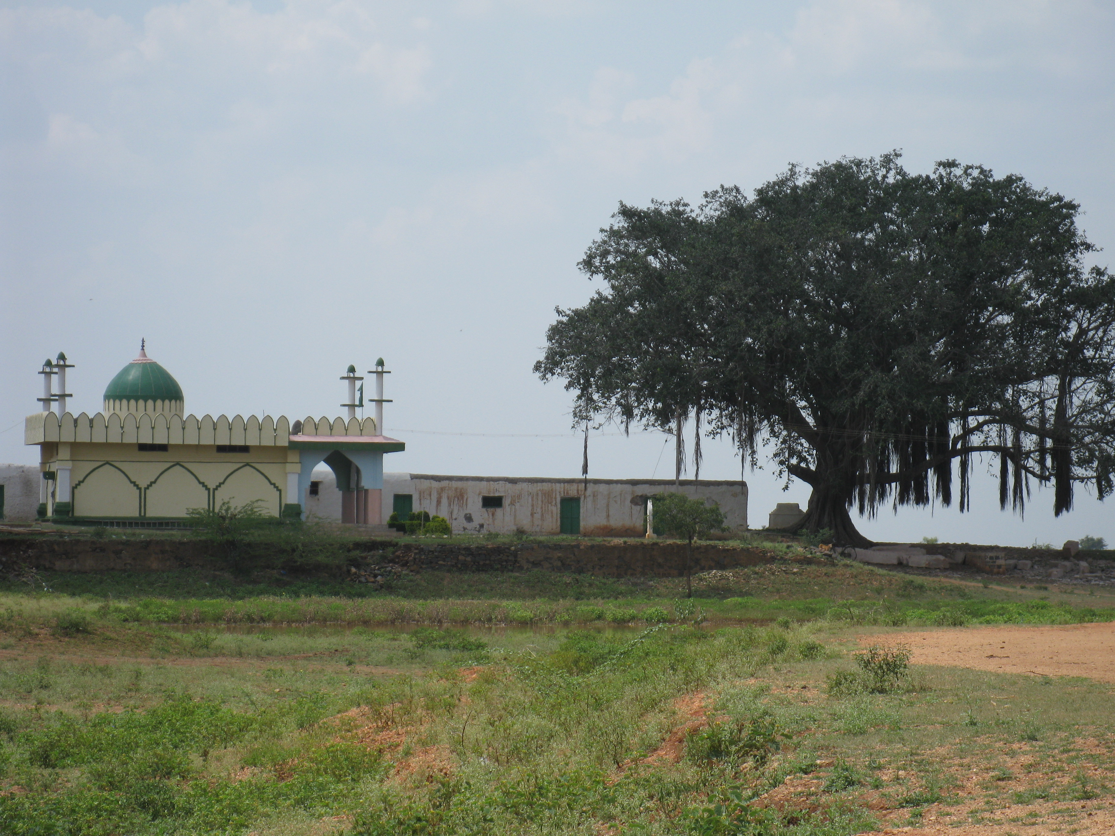 KotumachagiVillageDarga